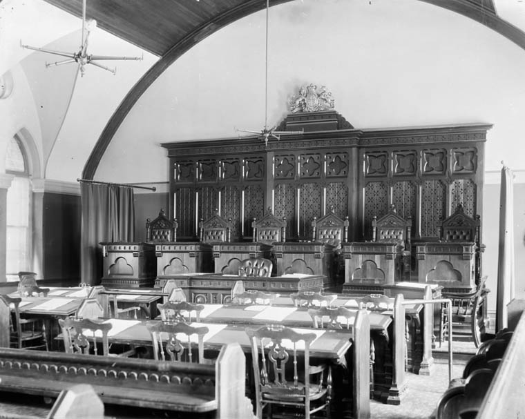 Interior of the old Supreme Court of Canada courtroom. Ottawa, Canada.